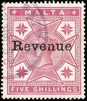 1899 Malta 5 shilling revenue stamp created by overprinting an earlier stamp with the words Revenue.